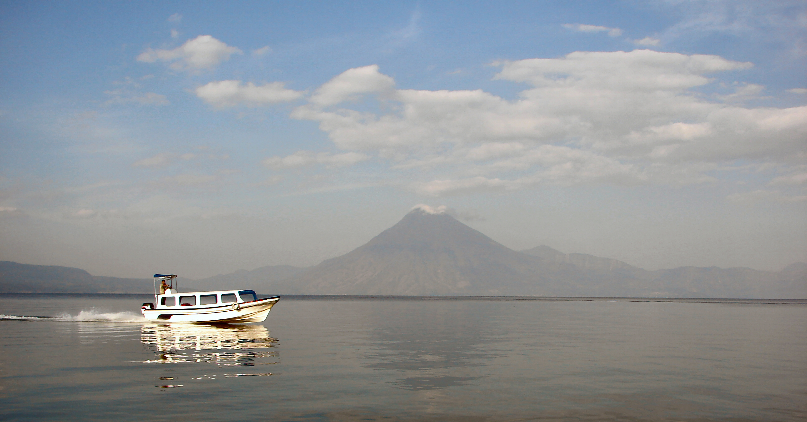 Volcan San Pedro as seen in the morning from the lakeshore at Panajachel.